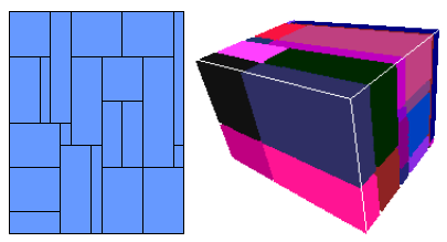 This picture shows two examples of tilings in the rasdaman Array Database System. A tiling is a partitioning of a (multi-dimensional) array into sub-arrays which are handy for storing and loading on by rasdaman server. On the left-hand side, a sample two-dimensional tiling is shown, on the right-hand side a 3-D one. Both show that, in rasdaman, tilings do not have to be aligned on grids.